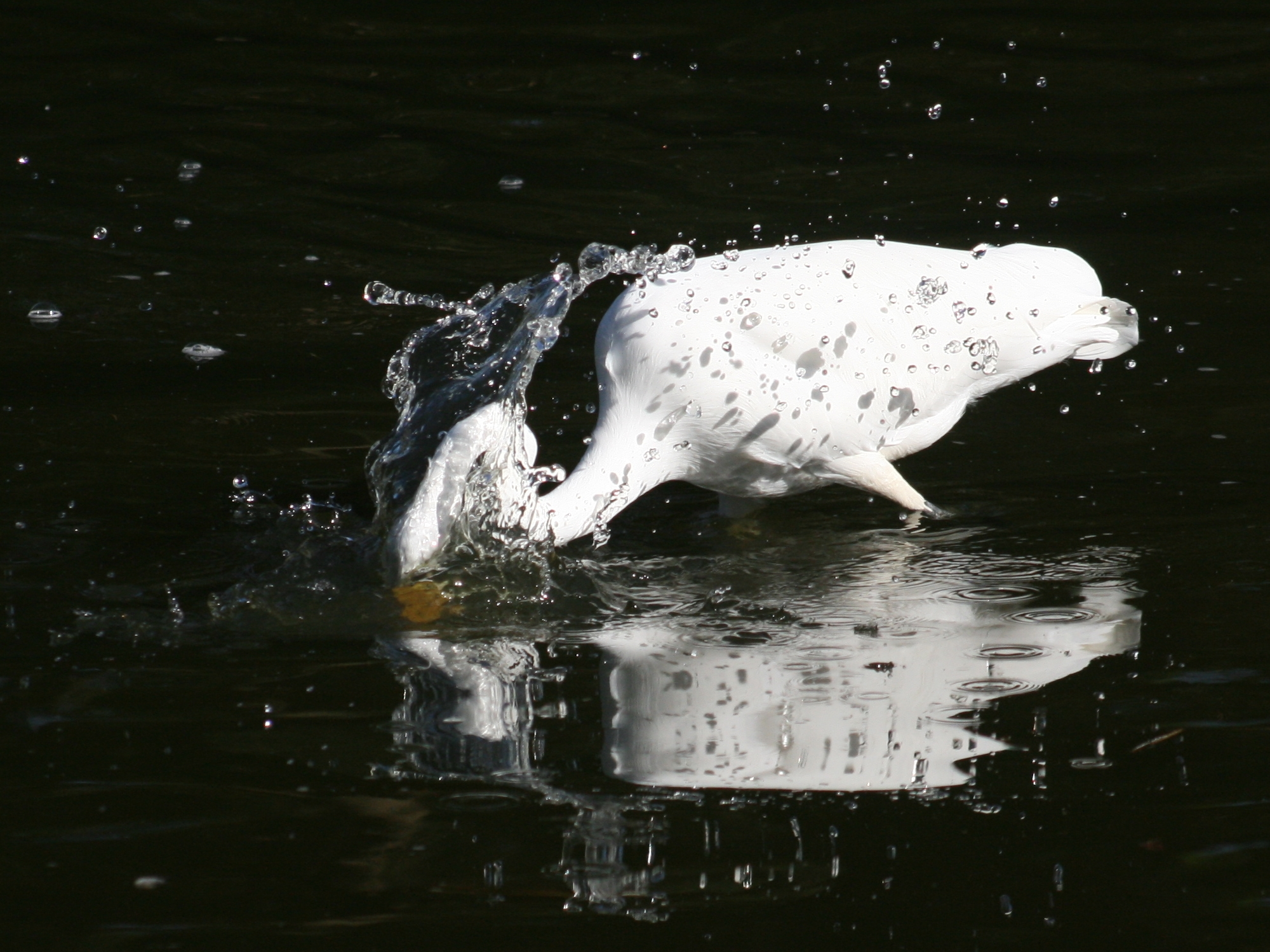 Great Egret strikes for a fish, close-up.